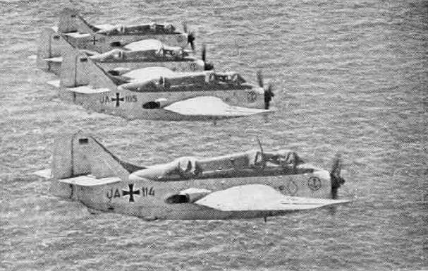 Four of 15 Fairey Gannet AS.4 operated by the German Marineflieger (West German Navy Air Arm) between 1958 and 1966.